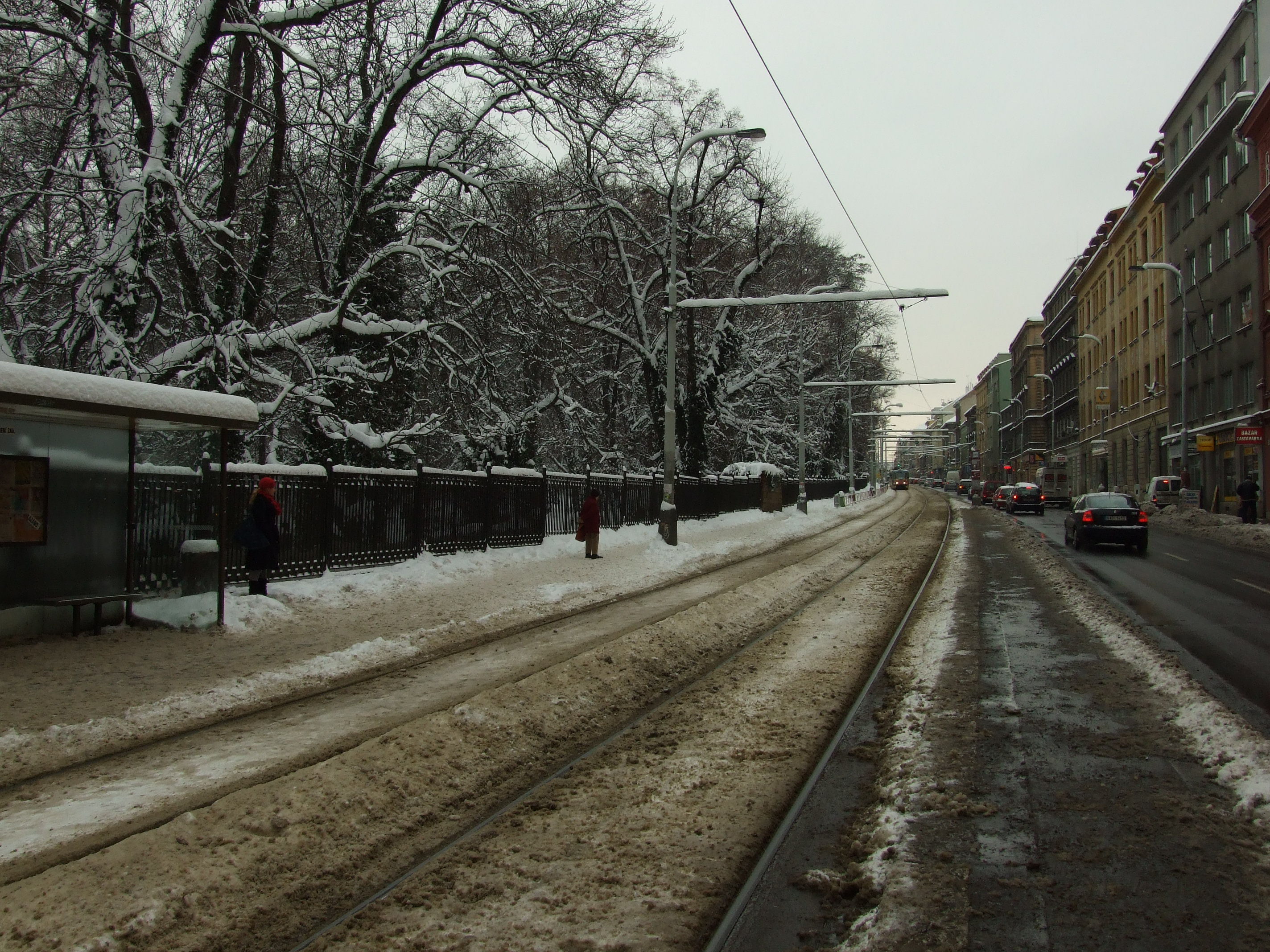 Plzeňská street in Prague Smíchov covered by snow in January 2010. Prague, CZhelp